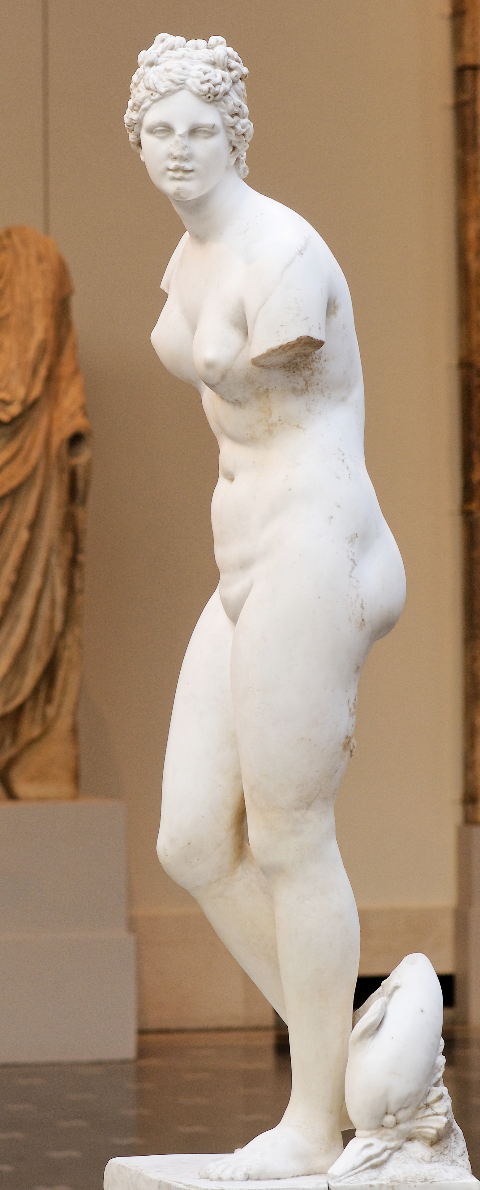 Statue of Aphrodite of the Medici type. Roman copy of the Imperial period after a Greek original of the Hellenistic period; the lower legs are restored with casts from the Medicis Venus in the Uffizi, Florence.